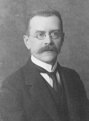 Wacław Błażej Orłowski